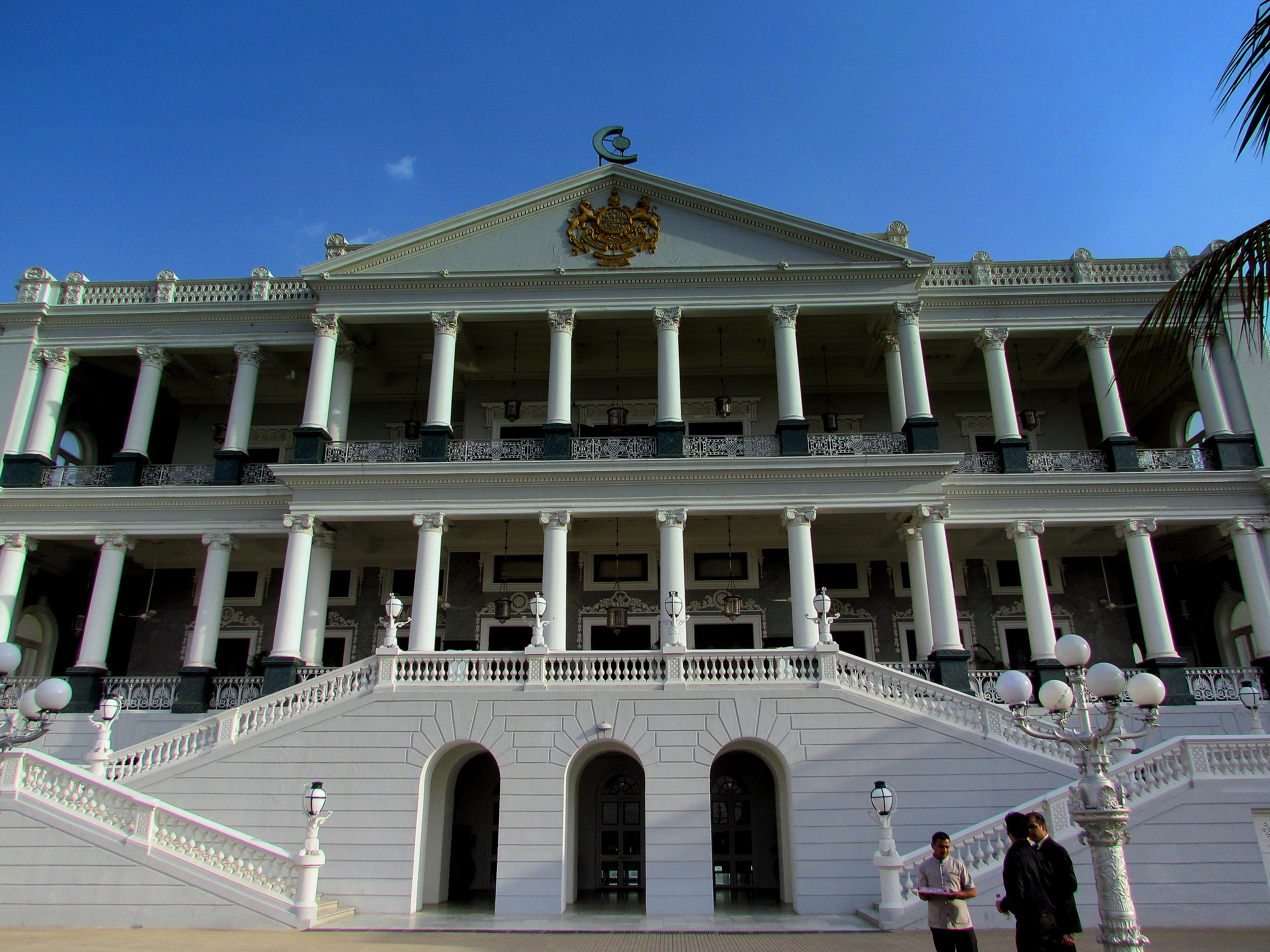 The grand Falaknuma Palace is Hyderabad's most beautiful and well maintained palaces located high on a hill from where the entire city is visible. The palace is currently leased to the Taj Group of Hotels.